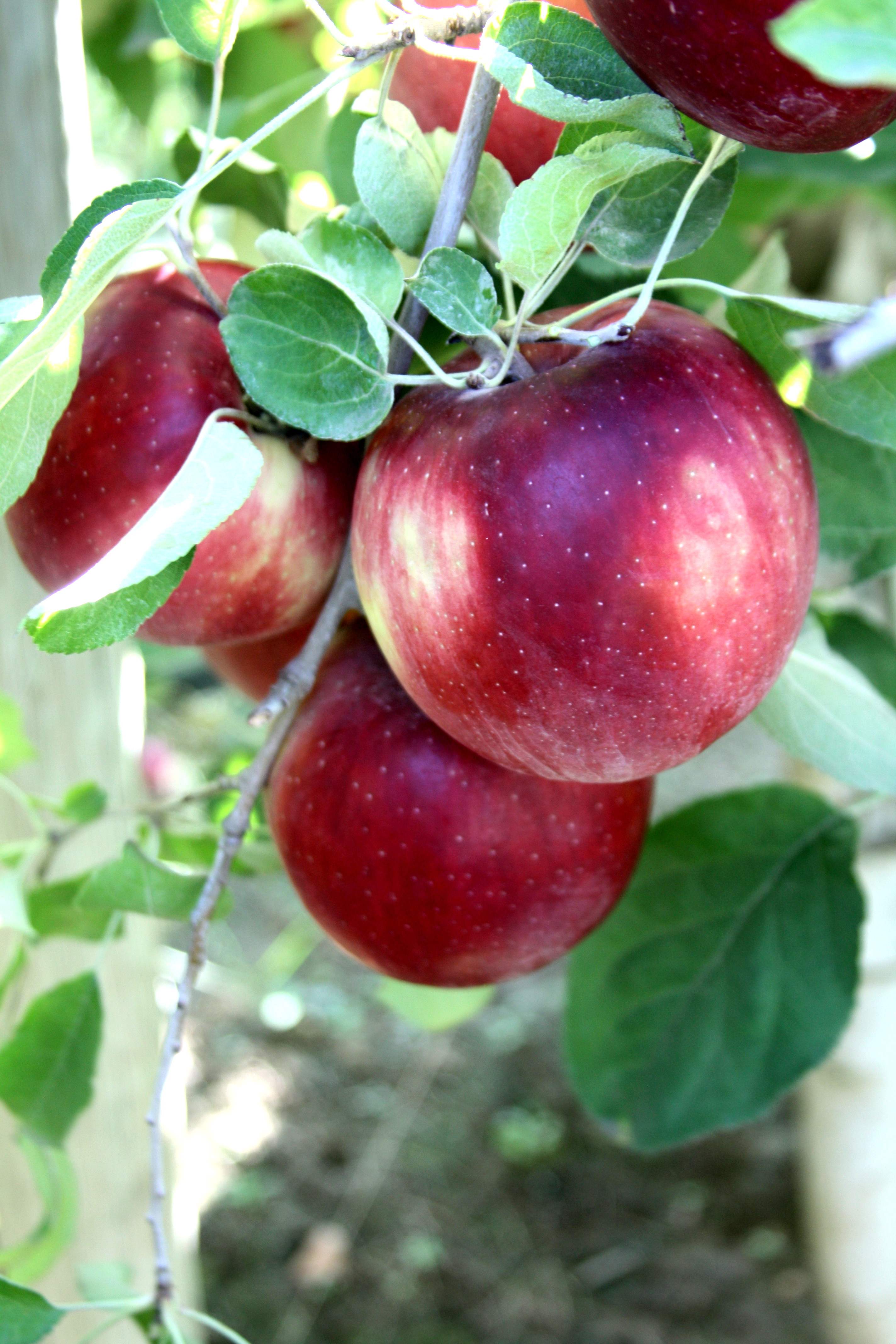 Cosmic Crisp™ is the trademark for the variety WA 38.